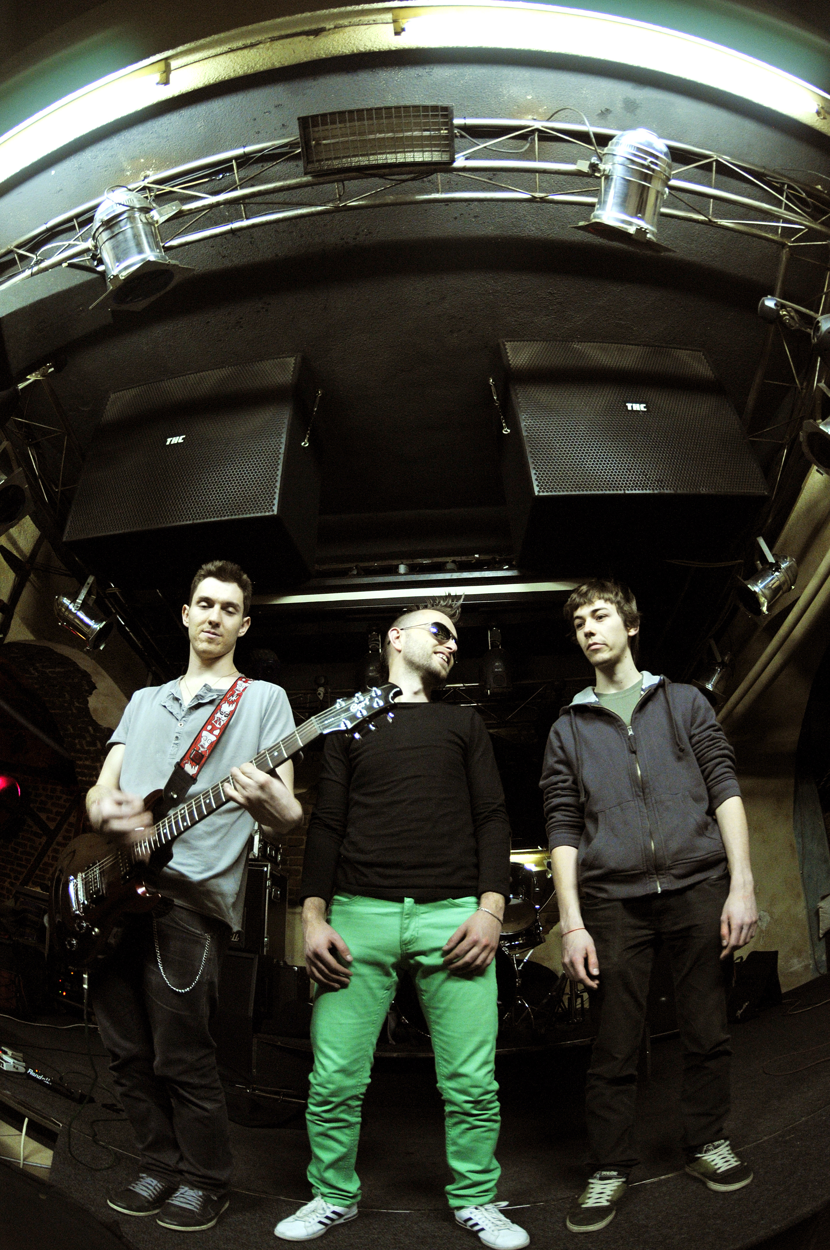 Viperfish photoshoot at "Swingin' Hall", Sofia, Bulgaria